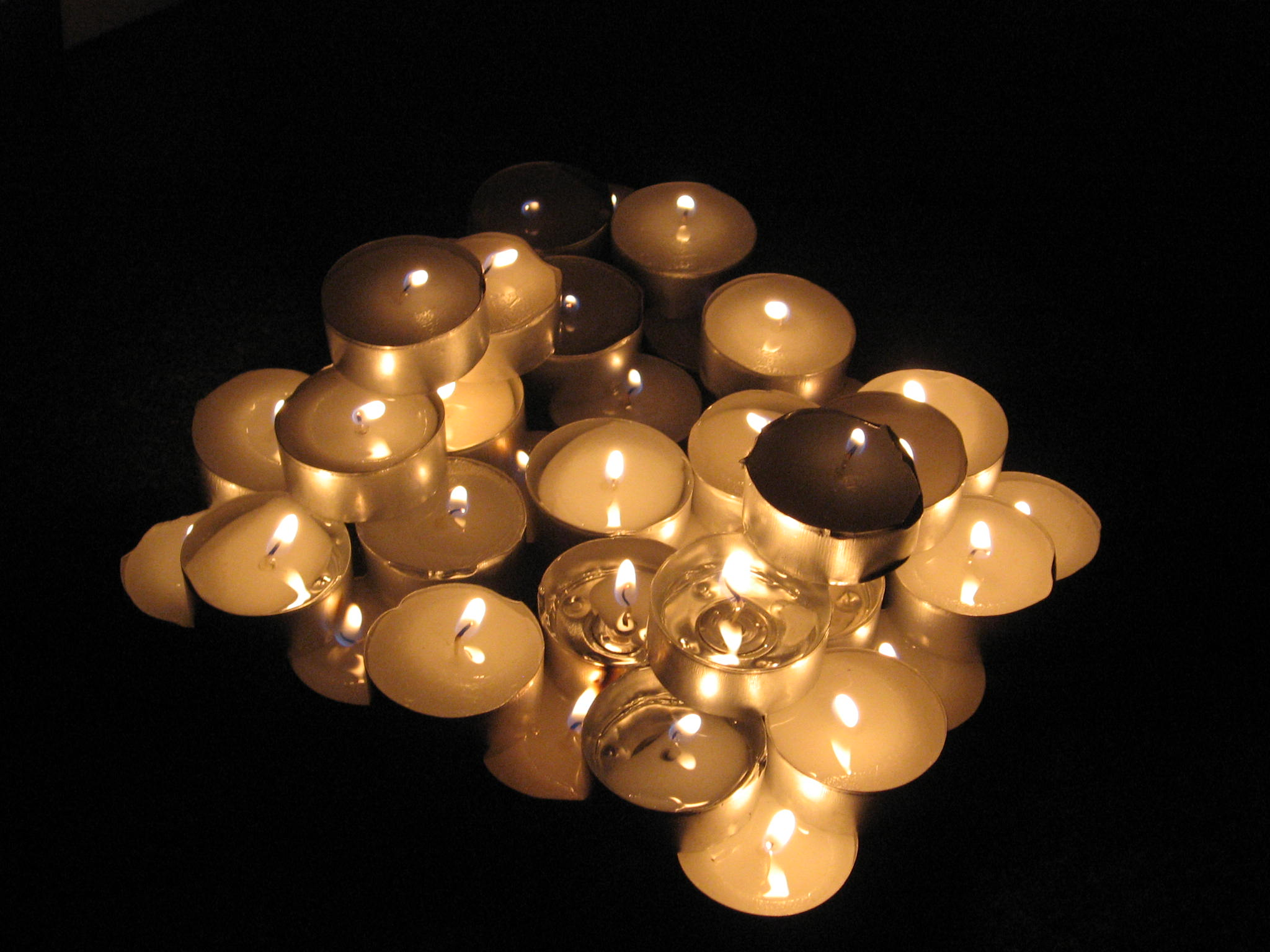 Tealights stacked together